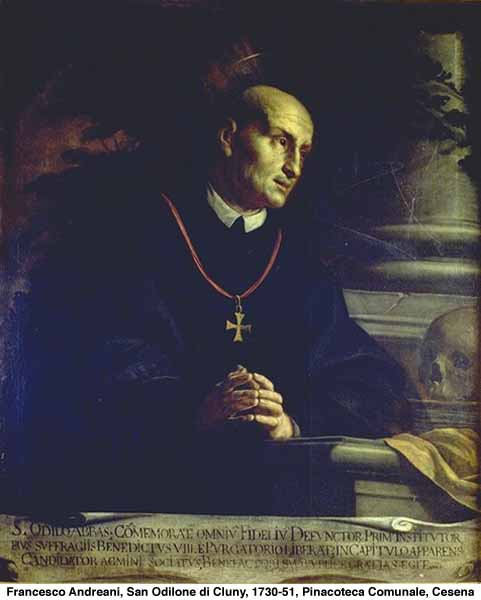 Painting of Saint Odilo of Cluny